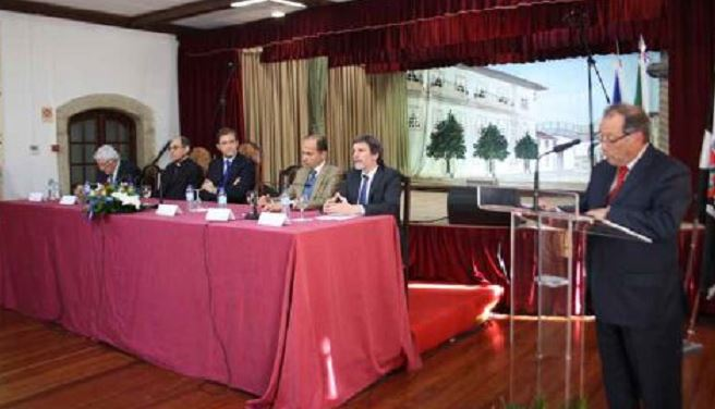 Sessão Solene da Santa Casa da Misericórdia de Castelo Branco